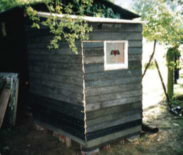 photo by Graham Burnett (quercus robur). If re-used a credit would be appreciated but is not compulsory!